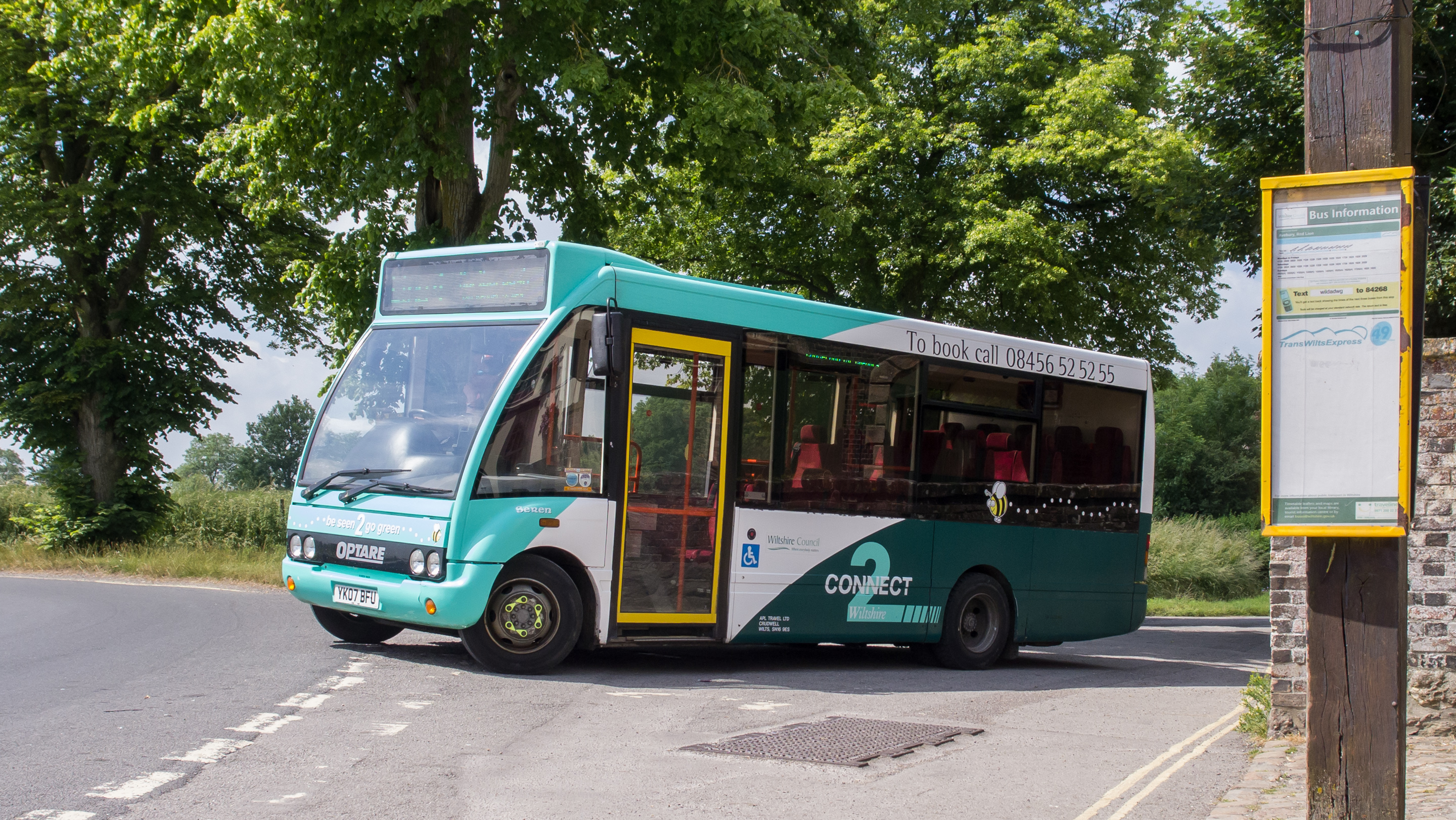 Connect 2 Wiltshire YK07 BFU in Avebury